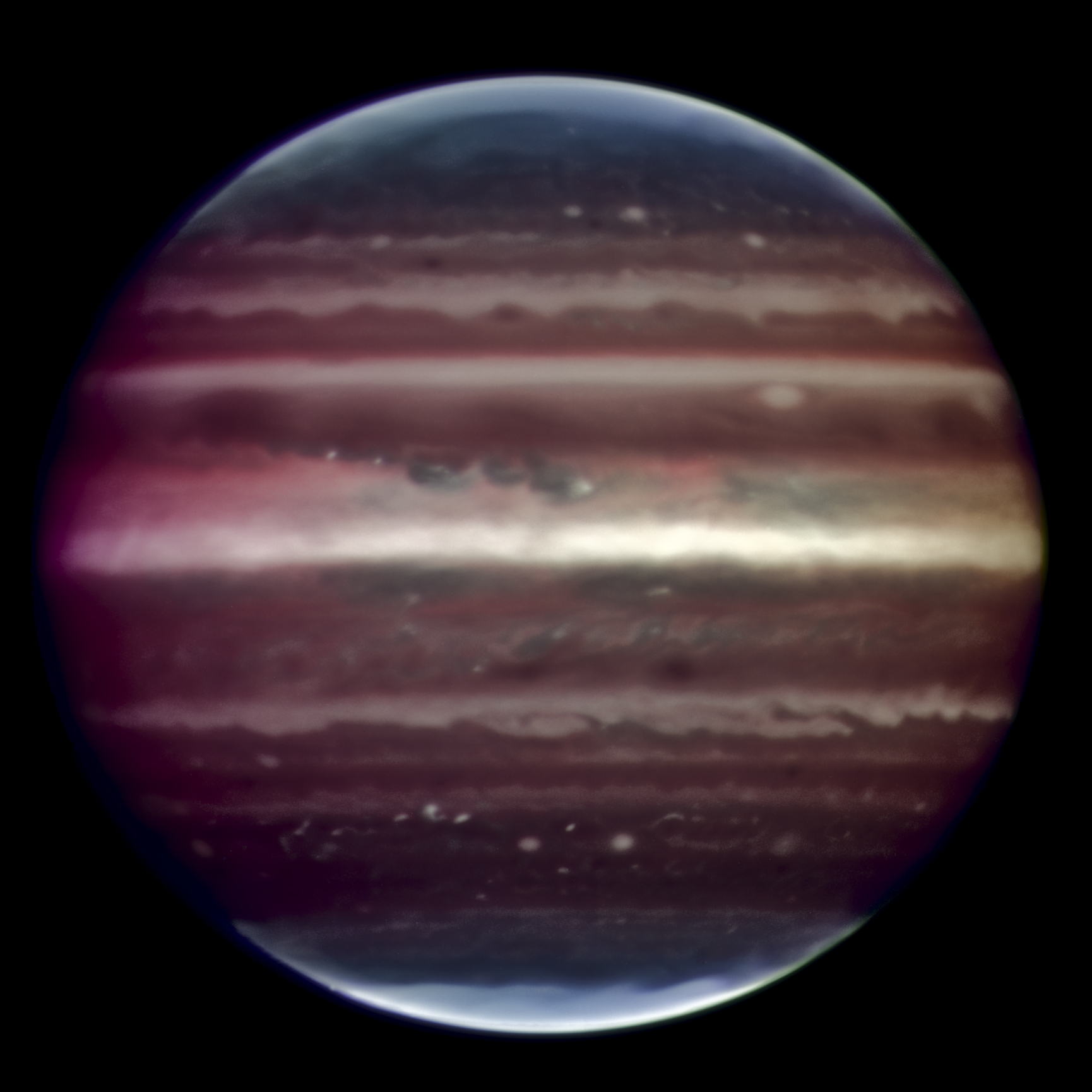 Image of Jupiter taken in infrared light on the night of 17 August 2008 with the Multi-Conjugate Adaptive Optics Demonstrator (MAD) prototype instrument mounted on ESO's Very Large Telescope. This false color photo is the combination of a series of images taken over a time span of about 20 minutes, through three different filters (2, 2.14, and 2.16 microns). The image sharpening obtained is about 90 milli-arcseconds across the whole planetary disc, a real record on similar images taken from the ground. This corresponds to seeing details about 186 miles wide on the surface of the giant planet. The great red spot is not visible in this image as it was on the other side of the planet during the observations. The observations were done at infrared wavelengths where absorption due to hydrogen and methane is strong. This explains why the colors are different from how we usually see Jupiter in visible-light. This absorption means that light can be reflected back only from high-altitude hazes, and not from deeper clouds. These hazes lie in the very stable upper part of Jupiter's troposphere, where pressures are between 0.15 and 0.3 bar. Mixing is weak within this stable region, so tiny haze particles can survive for days to years, depending on their size and fall speed. Additionally, near the planet's poles, a higher stratospheric haze (light blue regions) is generated by interactions with particles trapped in Jupiter's intense magnetic field.